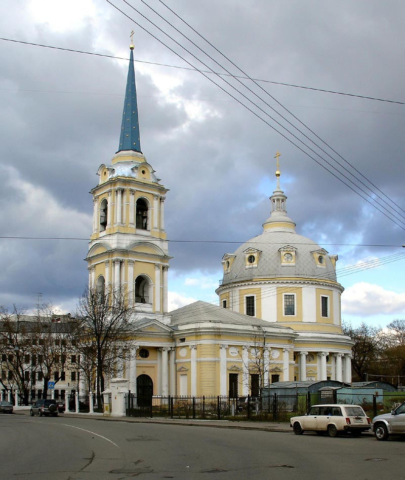 Ascension Church, corner of Kazakov and Radio Streets, Basmanny District, Moscow, Russia